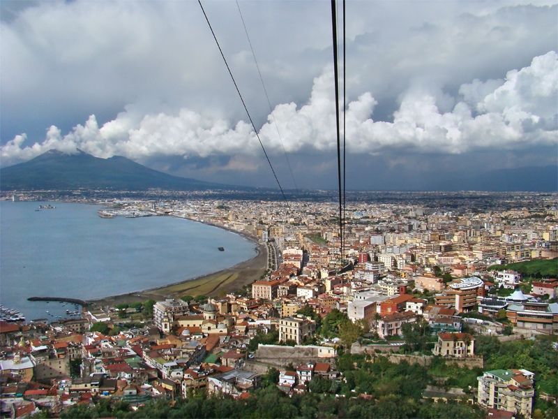 Castellammare di Stabia, Campania, Italy. View from the cable car leading to Mount Faito.